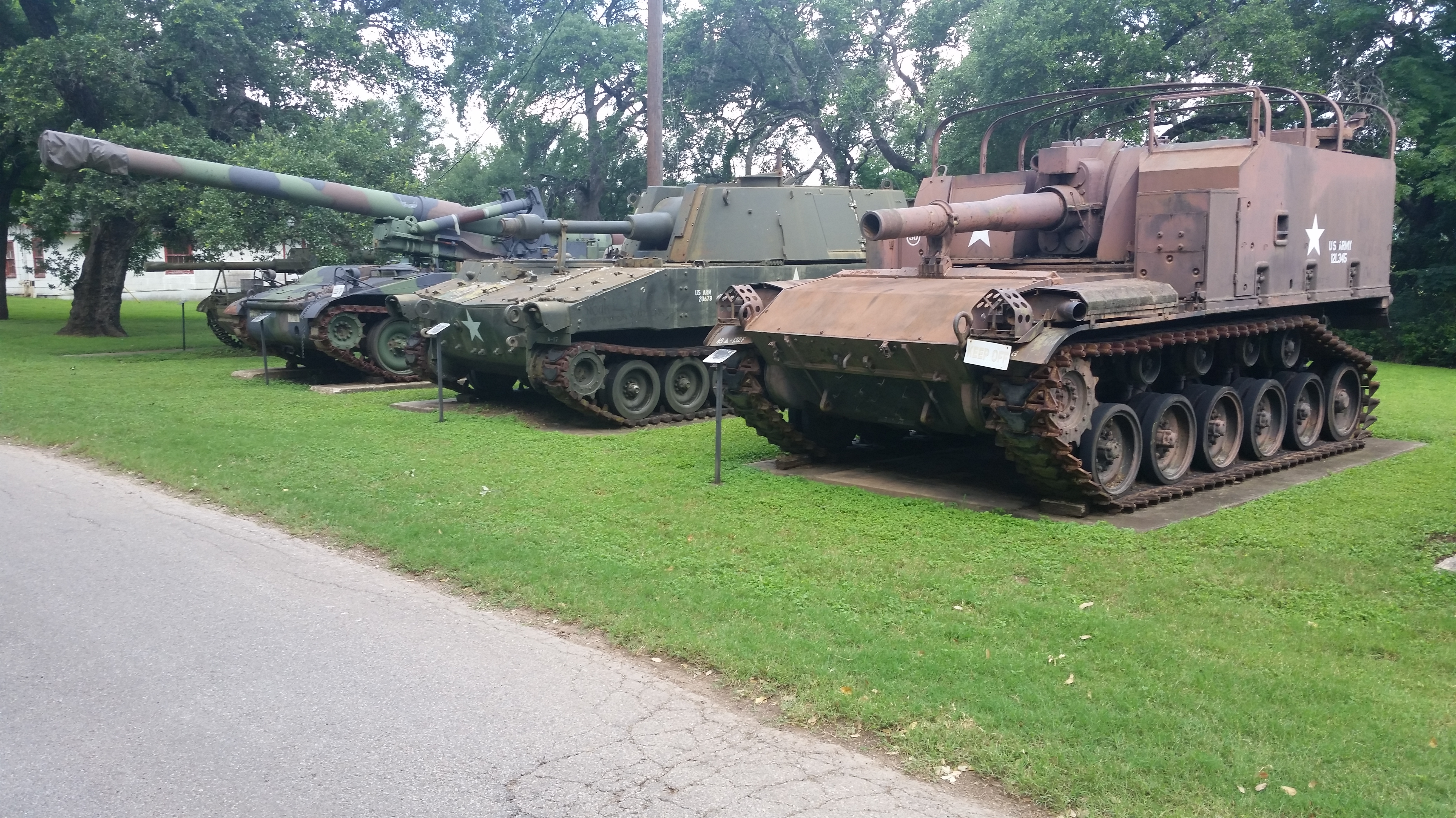 M110A2 M108 M44Texas Military Forces Museum